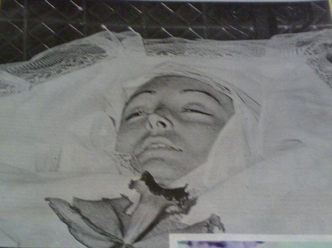 Mónica Jouvet- fotografía de velorio de la actriz